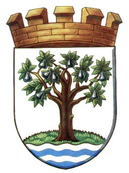 Arms of Worcestershire County Council, England.